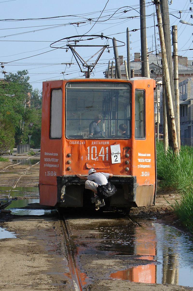 Trams in Astrakhan. Kids having fun.